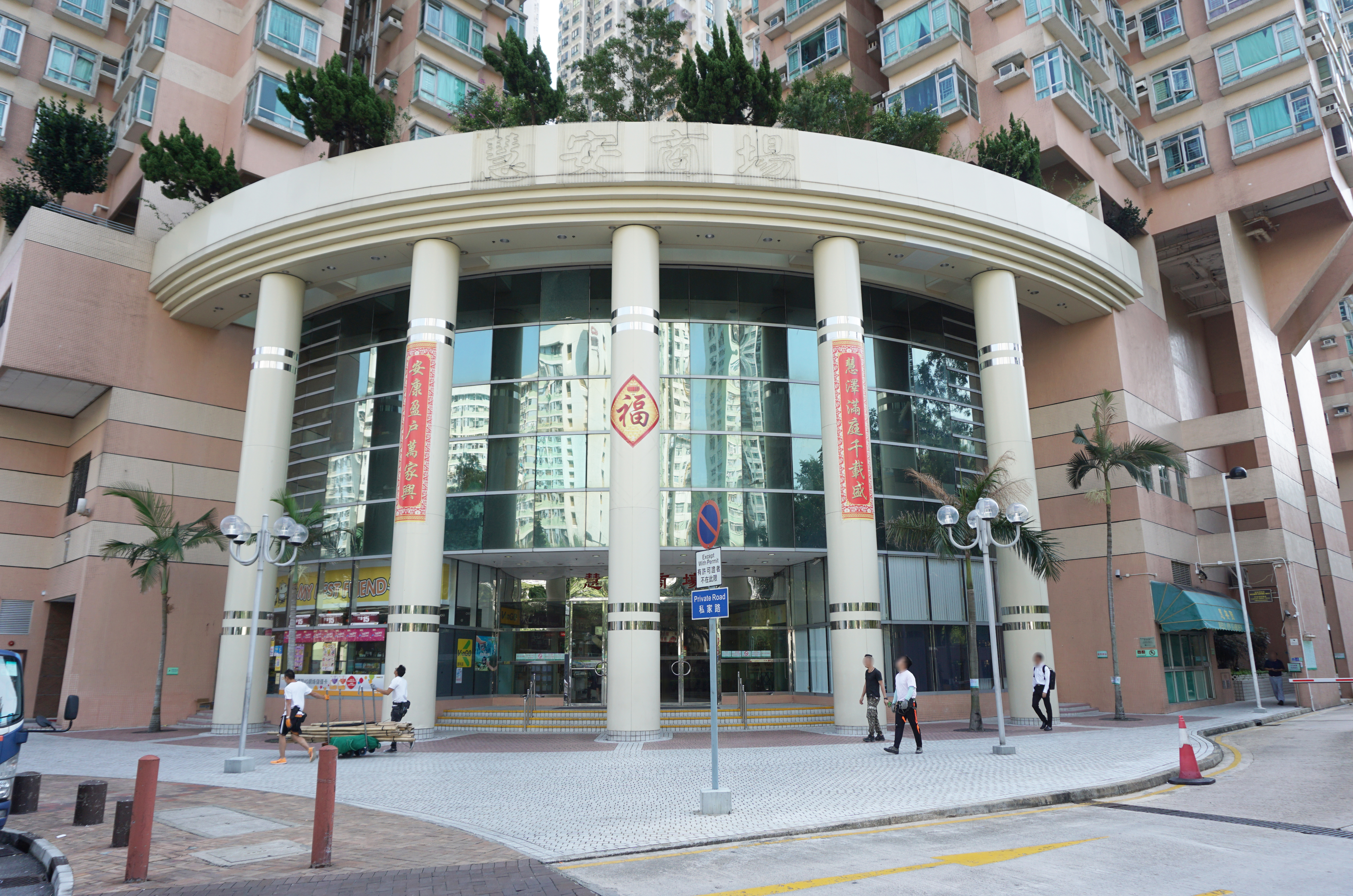 Well On Garden in Po Lam, Hong Kong.